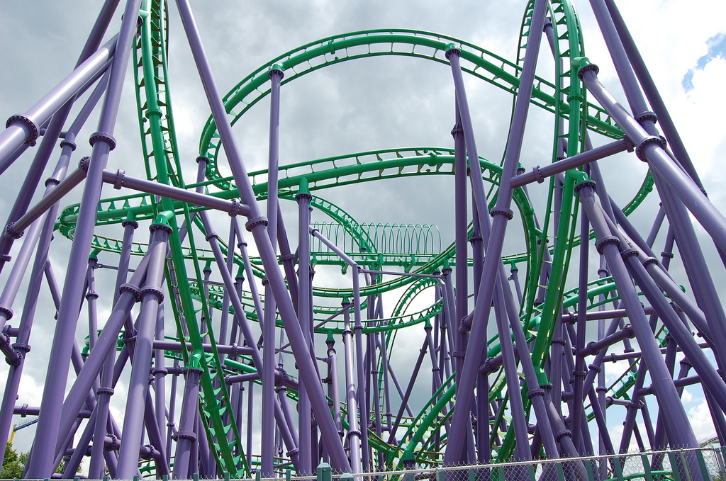 The Joker's Jinx at Six Flags America, Largo, Maryland.